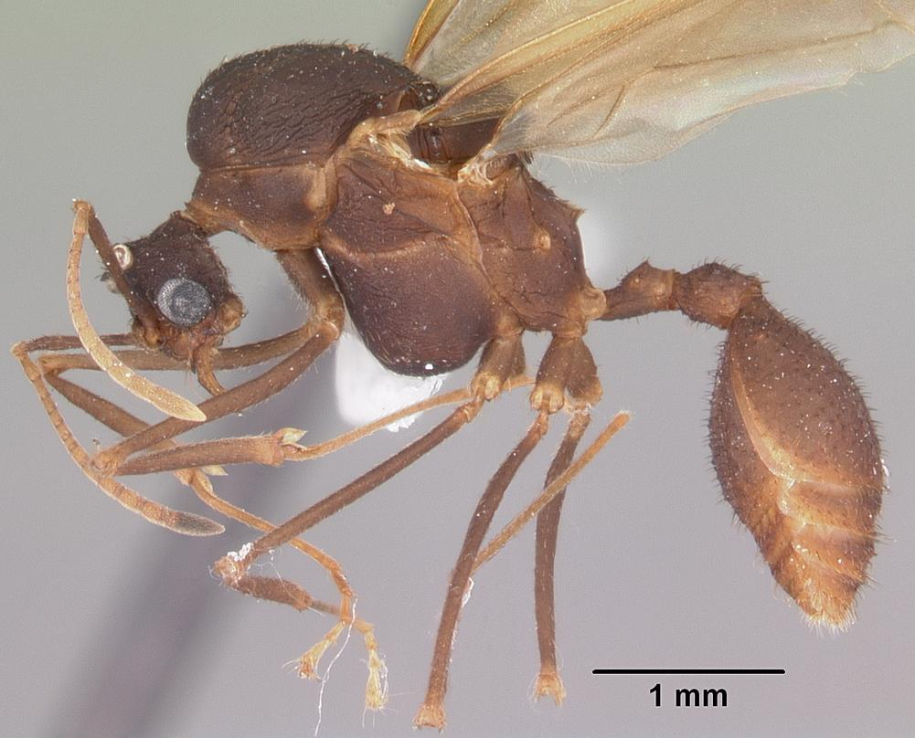 Profile view of ant Trachymyrmex jamaicensis specimen casent0102744.